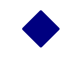 XXV Corps, Army of the James, Dept of Texas, 3rd Division Badge